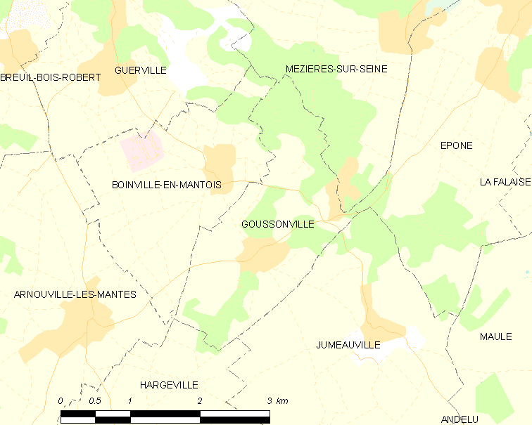 Map of French municipality Goussonville